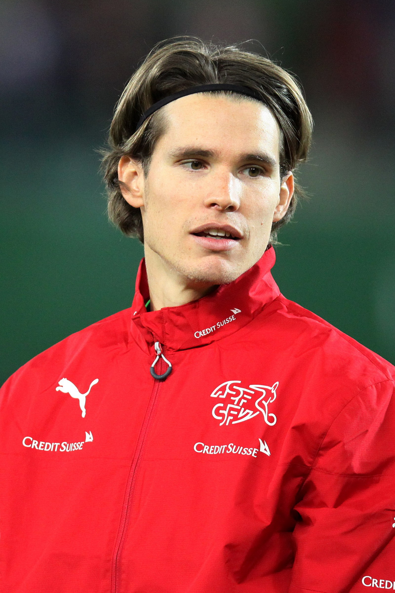 Friendly match – Austria (red shirts) vs. Switzerland (white shirts) 1-2 (1-2) – 2015-11-17 in Vienna, Ernst-Happel-Stadion – The photo shows goalkeeper Marwin Hitz (Switzerland).